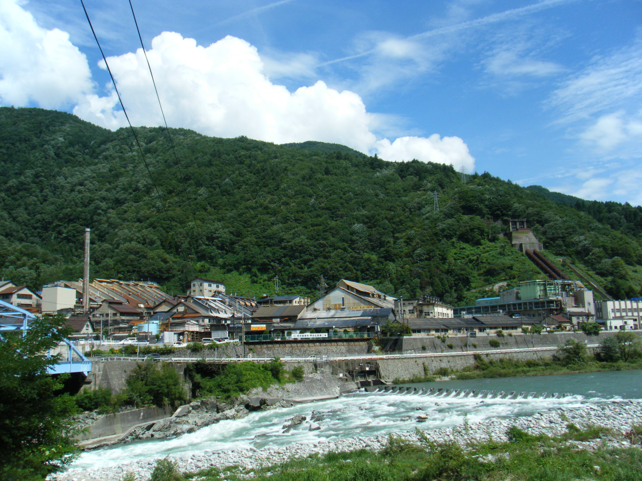 Kamiokakozan